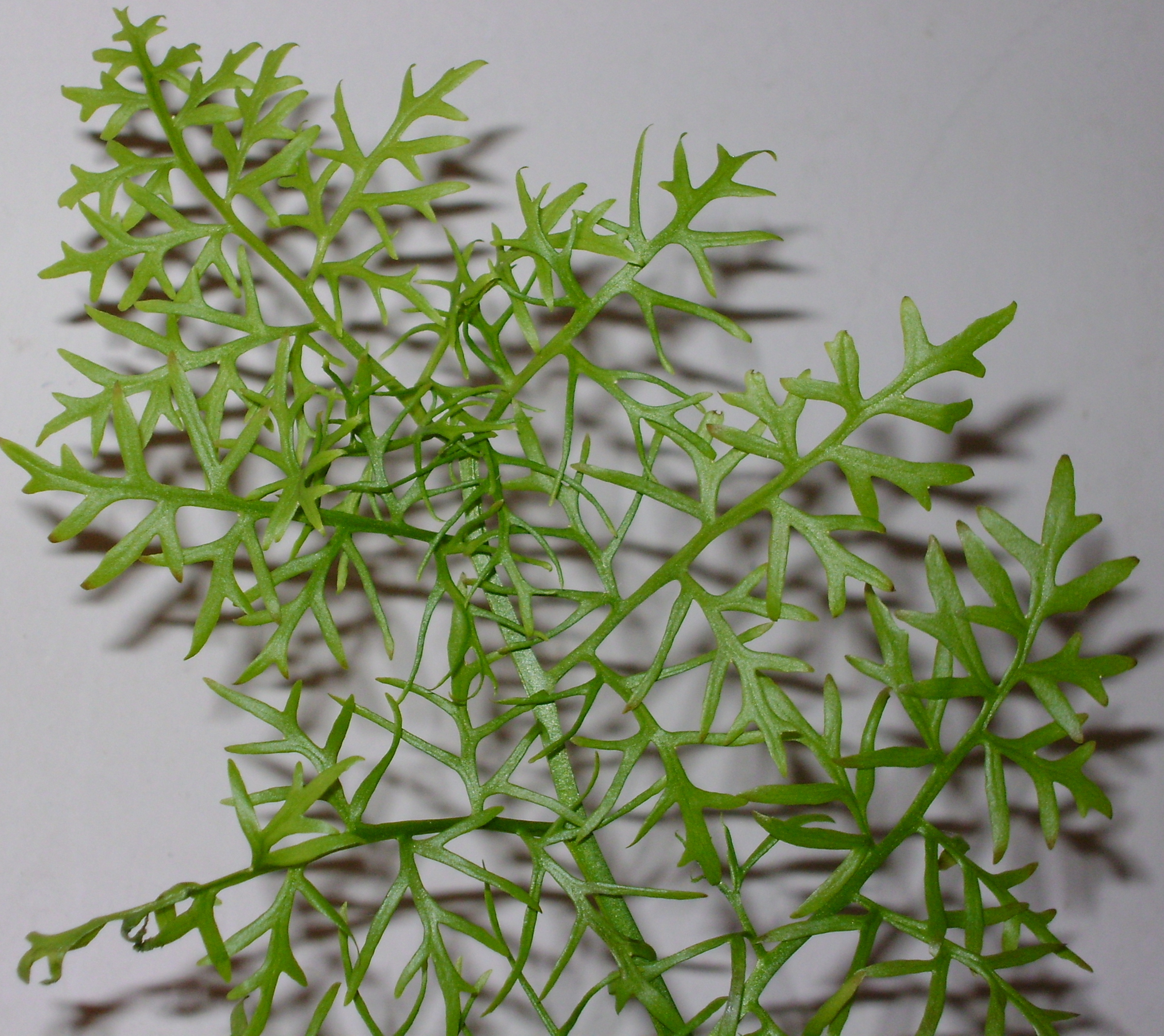 Ceratopteris cornuta (emerse)